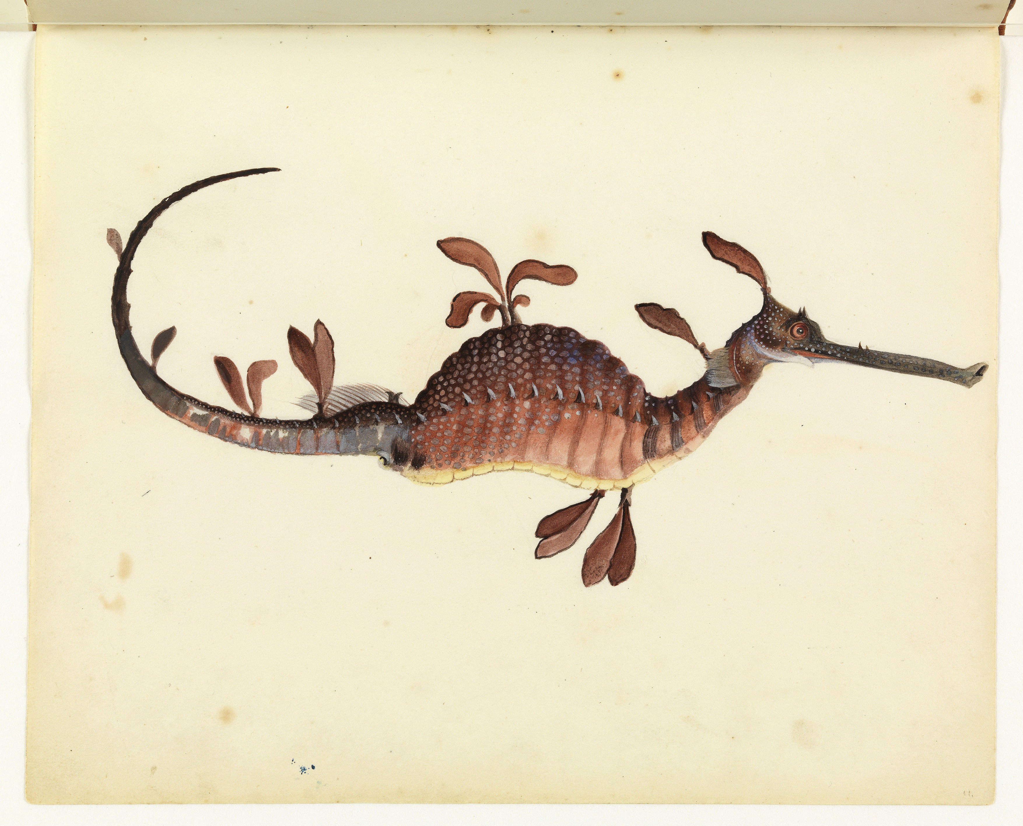 Sketch 11. Leafy sea dragon (mistitled, actually Weedy seadragon, Phyllopteryx taeniolatus) watercolour on paper sketch from the Sketchbook of fishes by Van Diemonian (Tasmanian) artist and convict William Buelow Gould (1801 - 1853). This full reproduction shows the bindings of the sketchbook at the top of the image.Produced c1832 as part of a thirty-six image still life sketchbook of fishes while Gould was a convict on Sarah Island at the Macquarie Harbour Penal Station. Probably done for Dr William De Little.Actual size 185 x 227 mm.